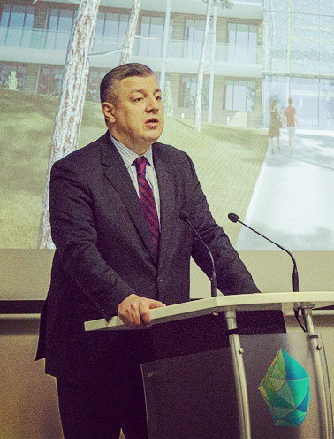 Vice Prime Minister of Georgia, Minister of Economy and Sustainable Development Giorgi Kvirikashvili and GITA gaving a press conference. 2014.